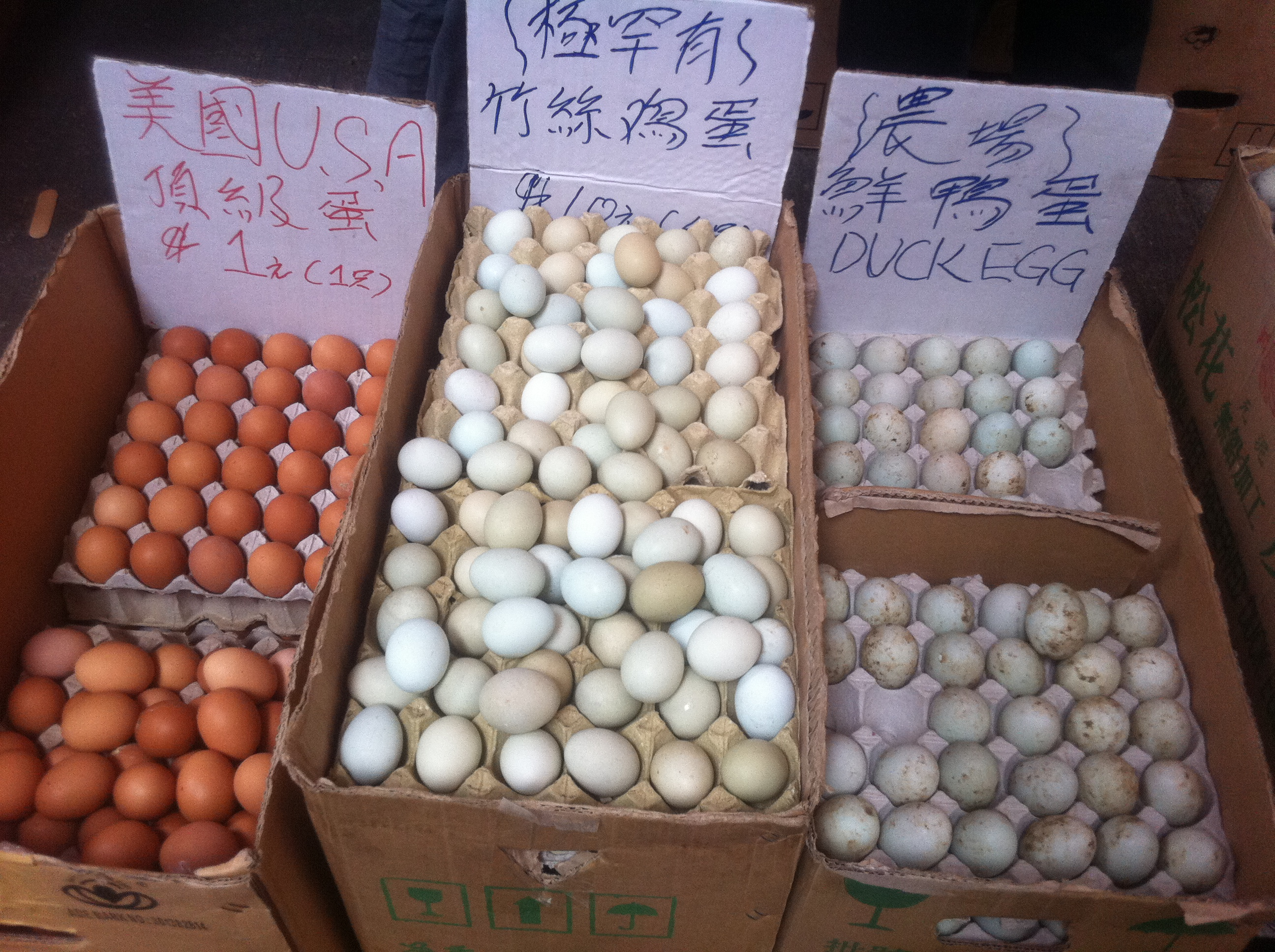 中環 結志街, Gage Street, Hong Kong